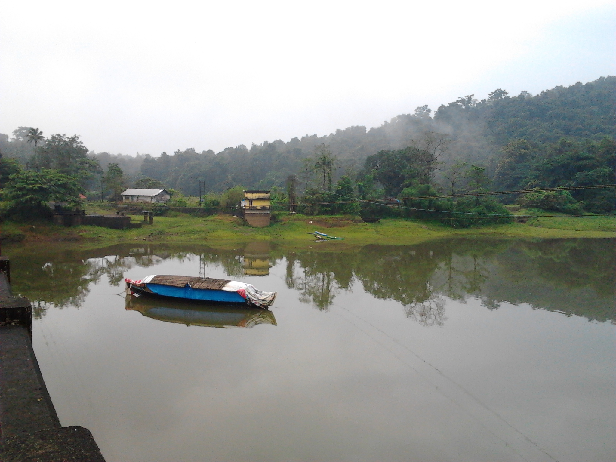 Thattekad Bird Sanctuary, one of the important bird sanctuaries of India, is an evergreen low-land forest located between the branches of Periyar River